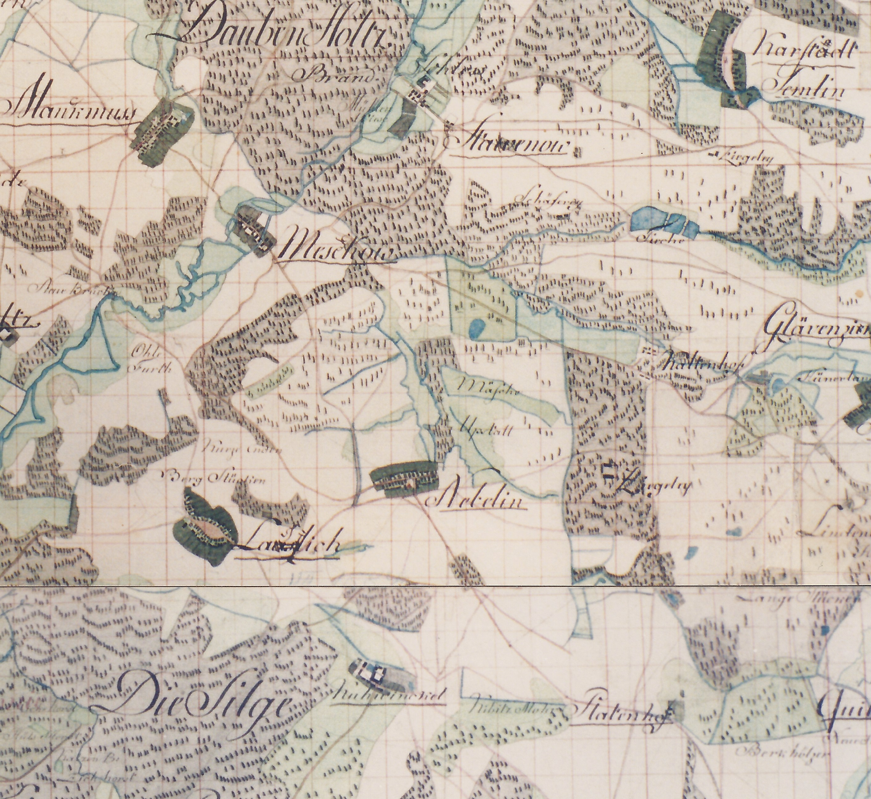 Map of Prignitz 1781